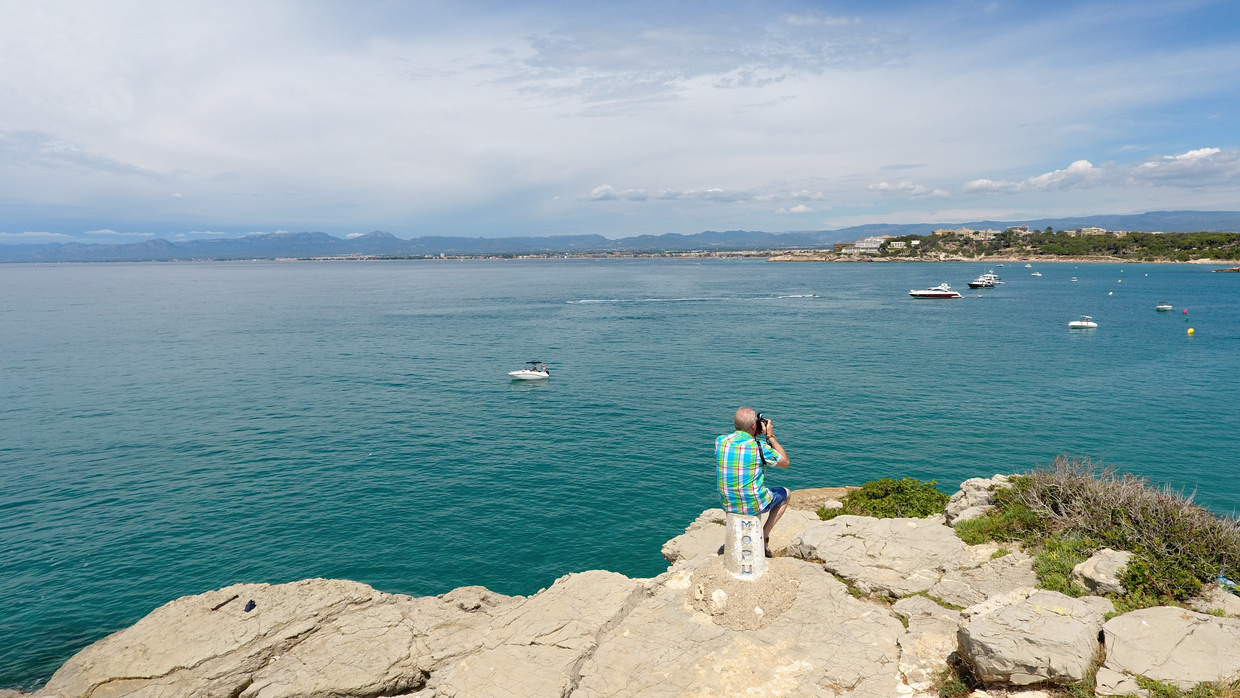 Vistas desde La Cola del Caballo